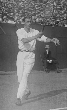 American tennis player Bill Tilden (1893-1953)